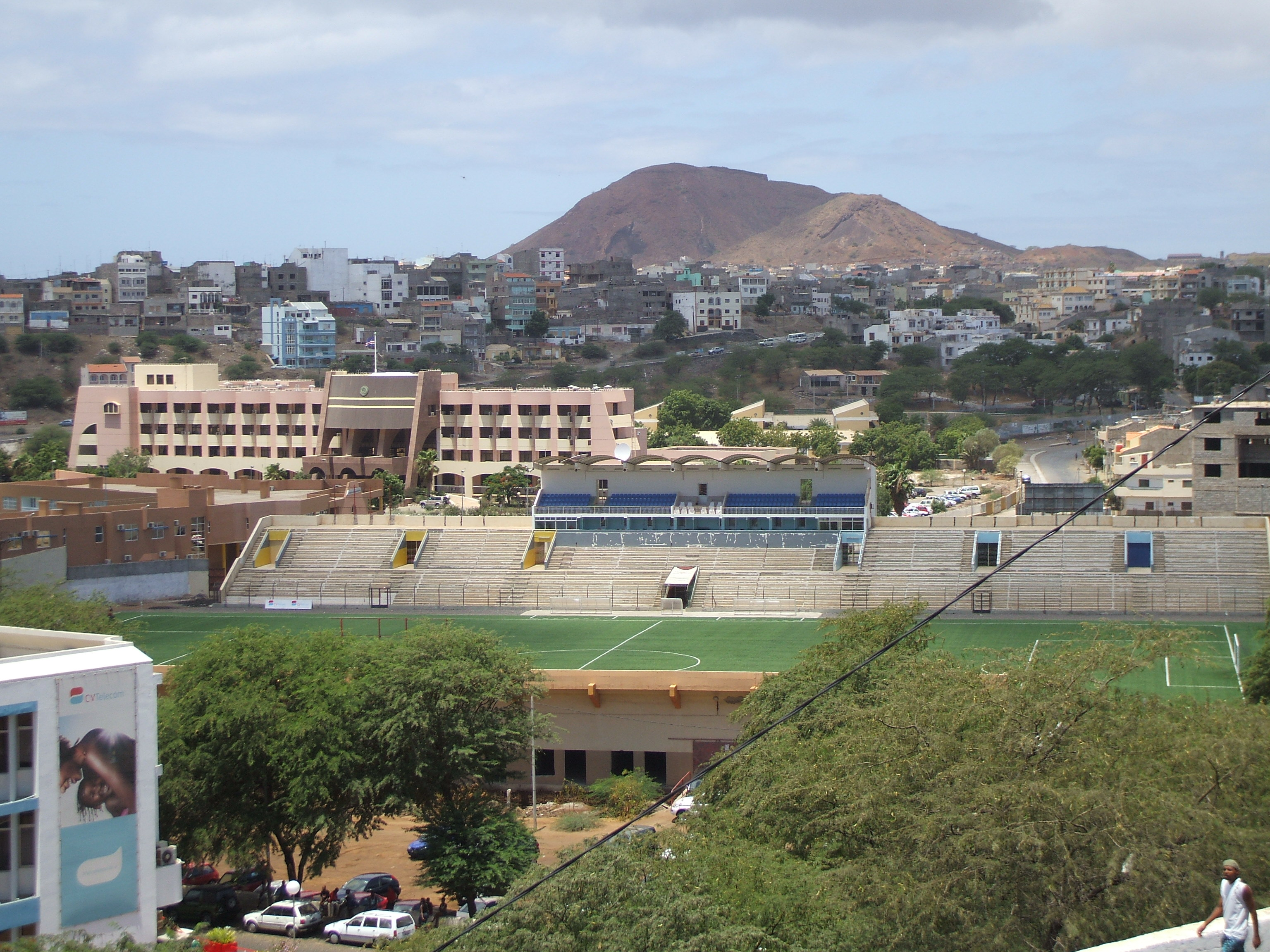 View over Estádio da Várzea (Várzea Stadium), in Praia